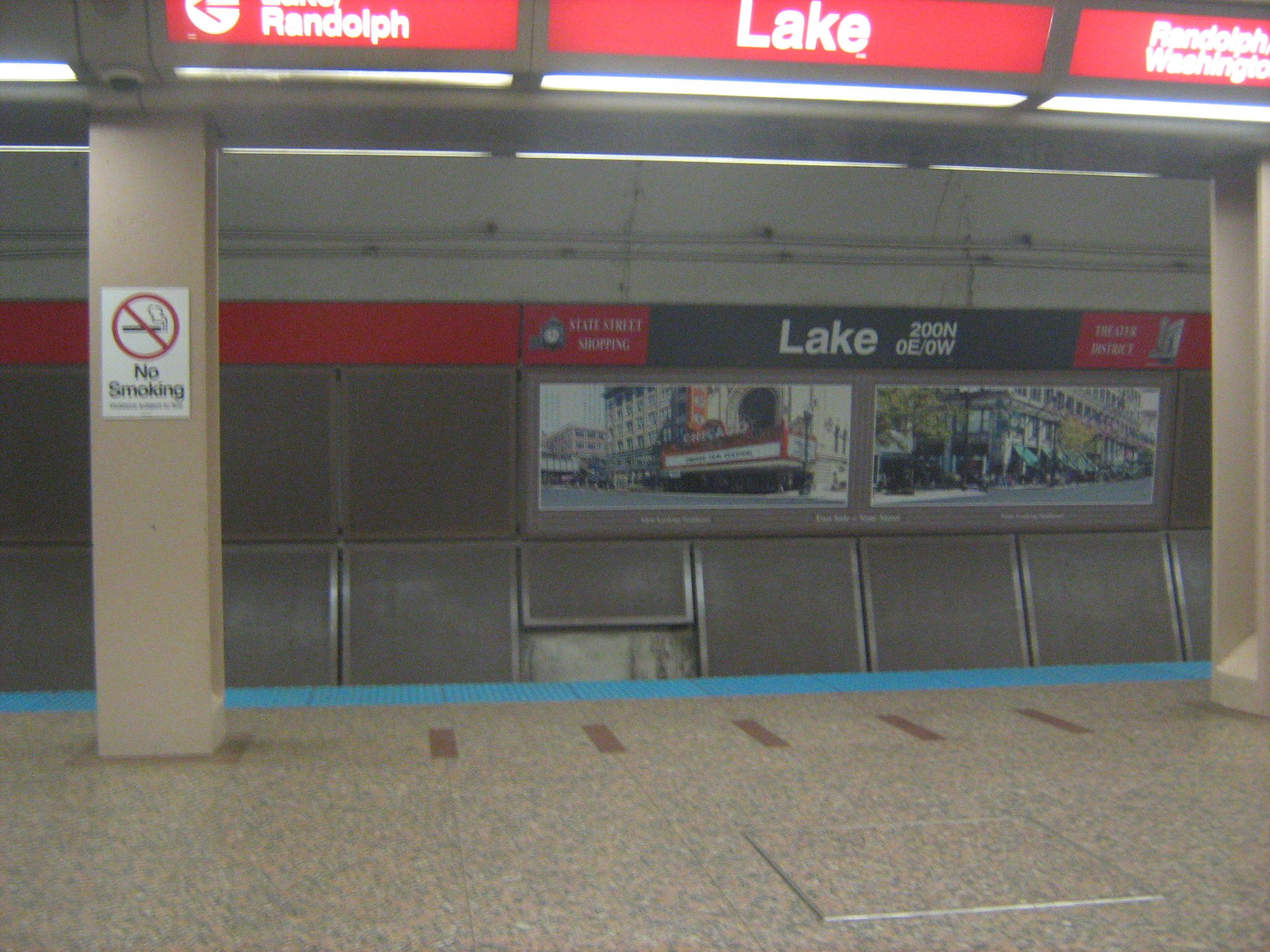 Lake Street and State Street (200N/0E-0W) 128 N. State St., Chicago, IL 60602 Red Line (Subway)